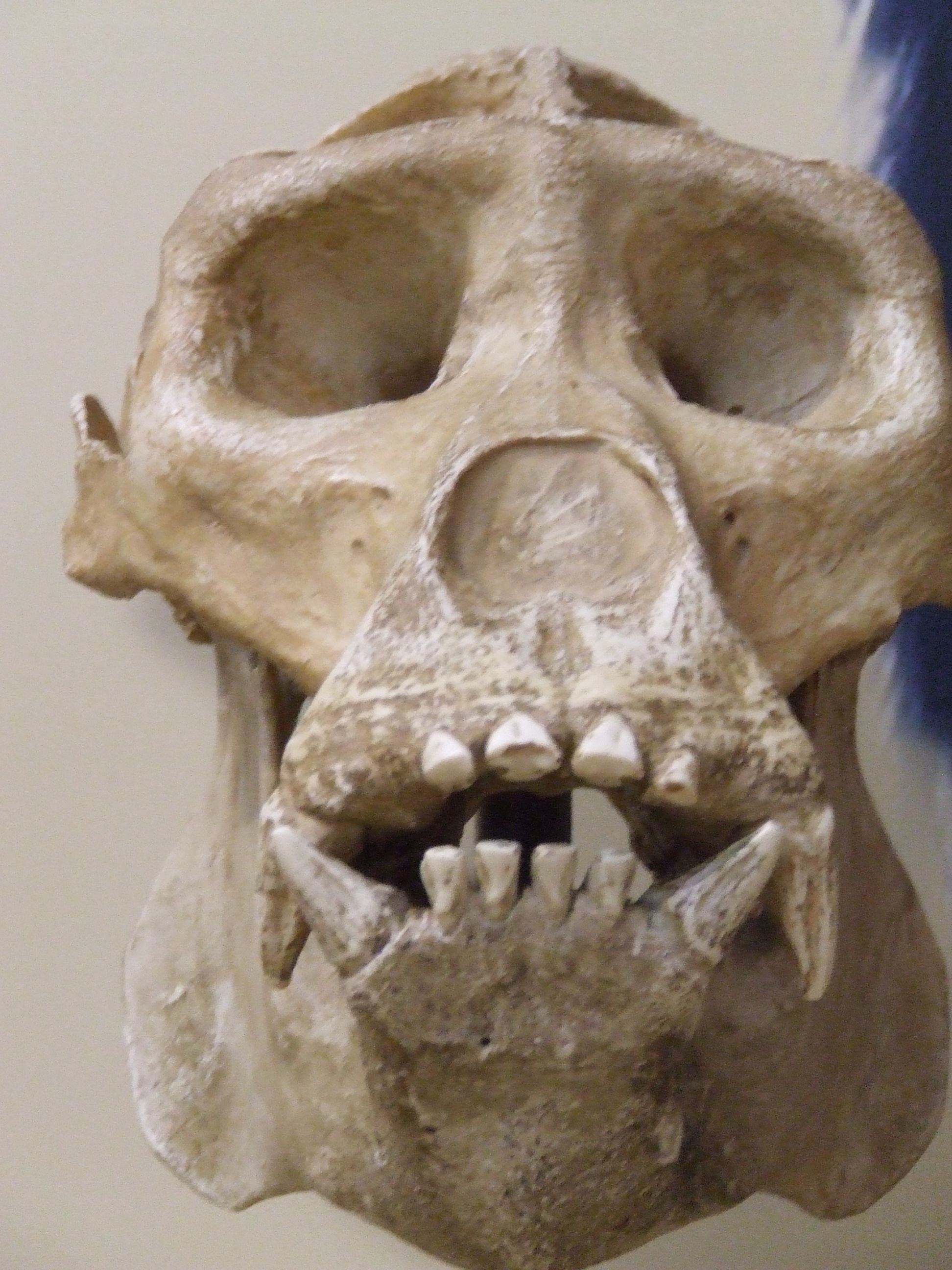 Cast of Eastern gorilla (Gorilla beringei) skull at Barcelona Zoo (Catalonia, European Union)